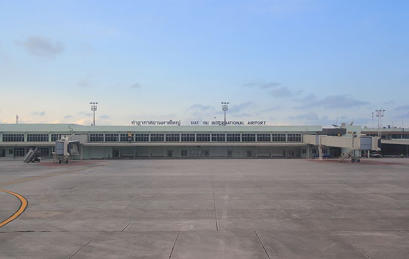 Terminal at Hat Yai International Airport